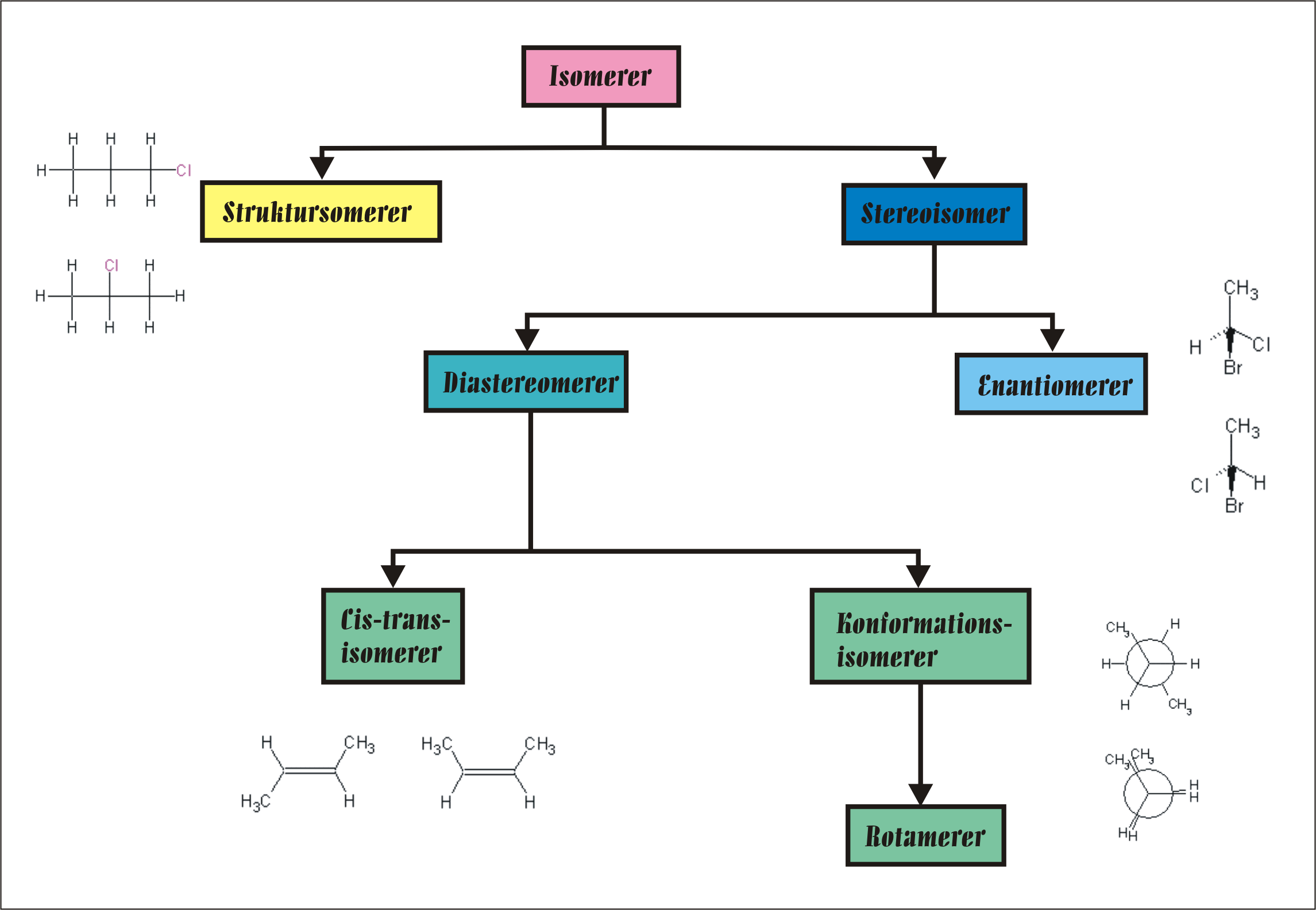 Diagram showing different isomers. Made with ChemSketch.